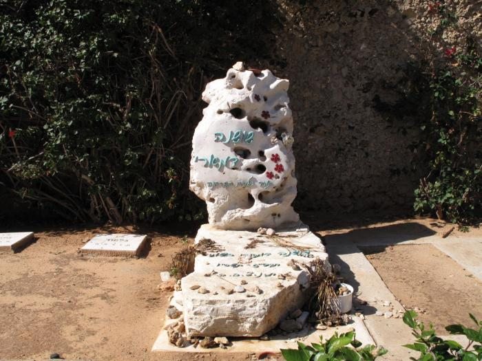 Shoshana Damari's grave at the cemetery in Trumpeldor St. Tel Aviv. Shoshana Damari was a famous Israeli vocalist 1923-2006